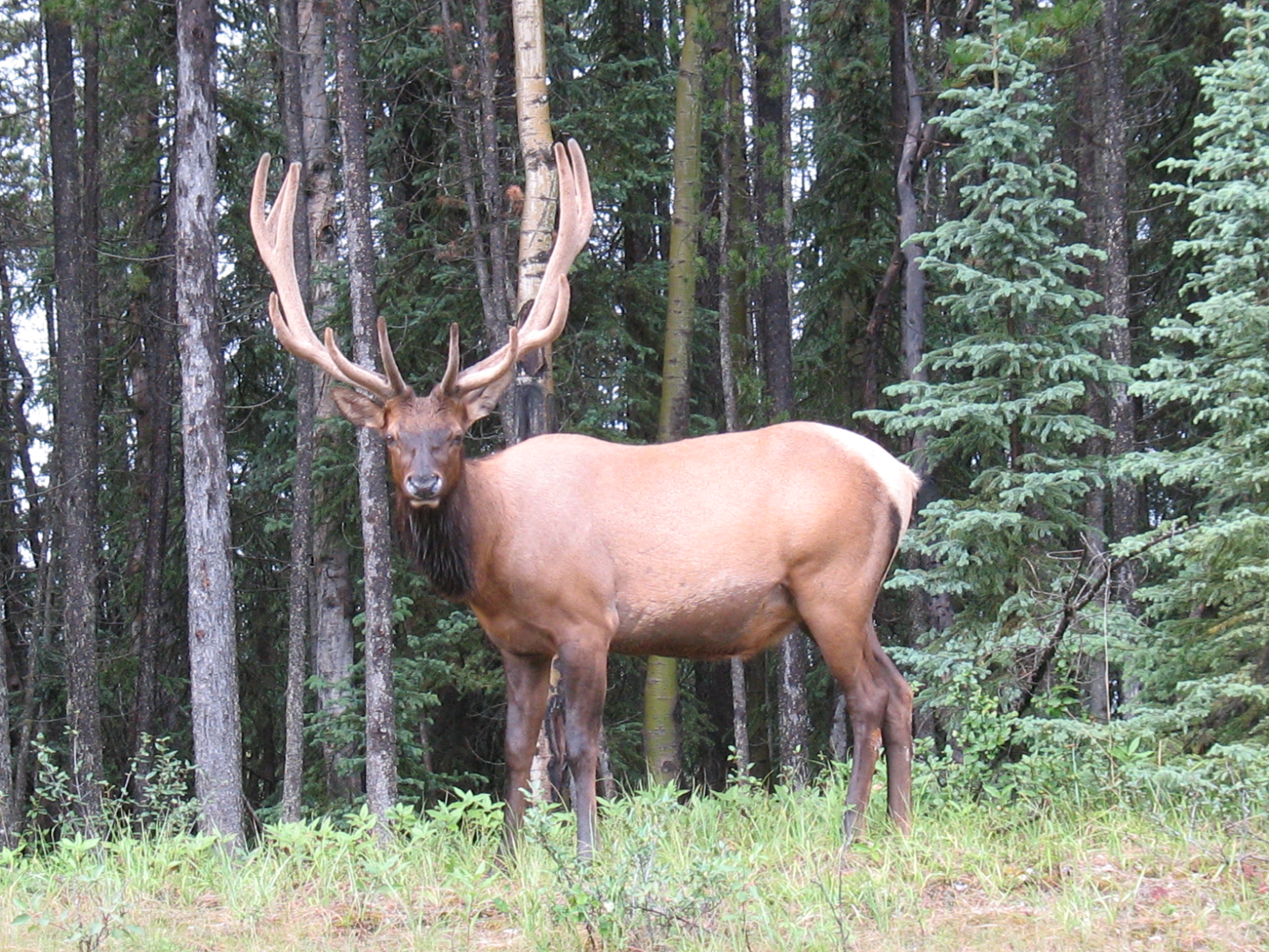 elk near Lake Maligne, Jasper National Park, Alberta, Canada